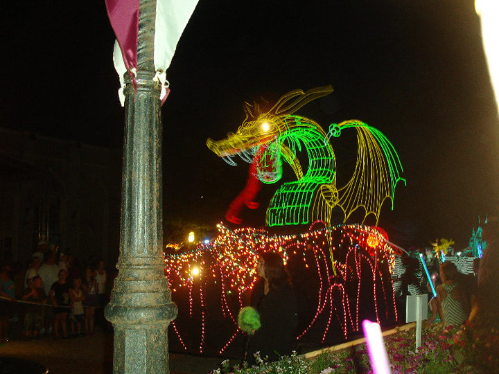 Glow in the Park Parade at Six Flags St. Louis on June 20, 2010! For more pictures go to